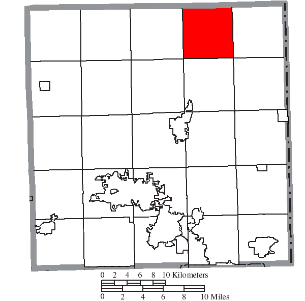 Map of the municipal and township boundaries of Trumbull County, Ohio, United States, as of the 2000 census, with the location of Gustavus Township highlighted. Township borders are shown only in unincorporated areas in order to differentiate incorporated and unincorporated areas more clearly.